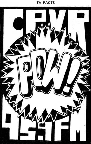 This is a newspaper advertisement for 95.9 CPVR-FM cable radio in Palos Verdes, designed by staff disc jockey, Dave Chrenko. (LA Daily Breeze, November 1973)